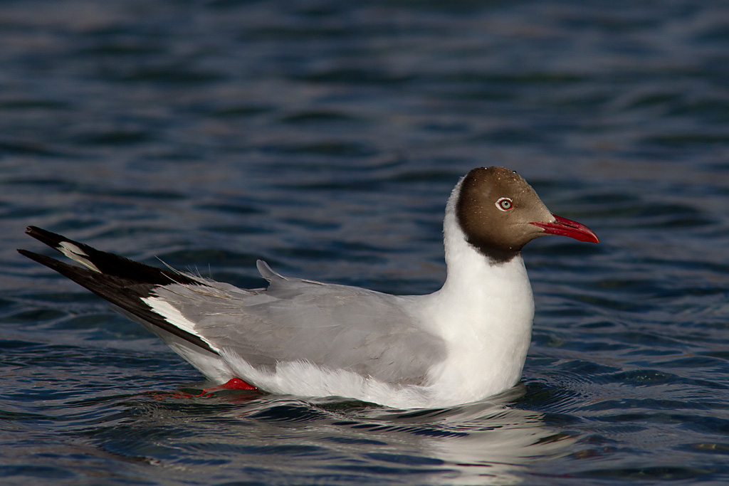 Brown-headed Gull in breeding plumage photographed at Lukung, Ladakh, India.